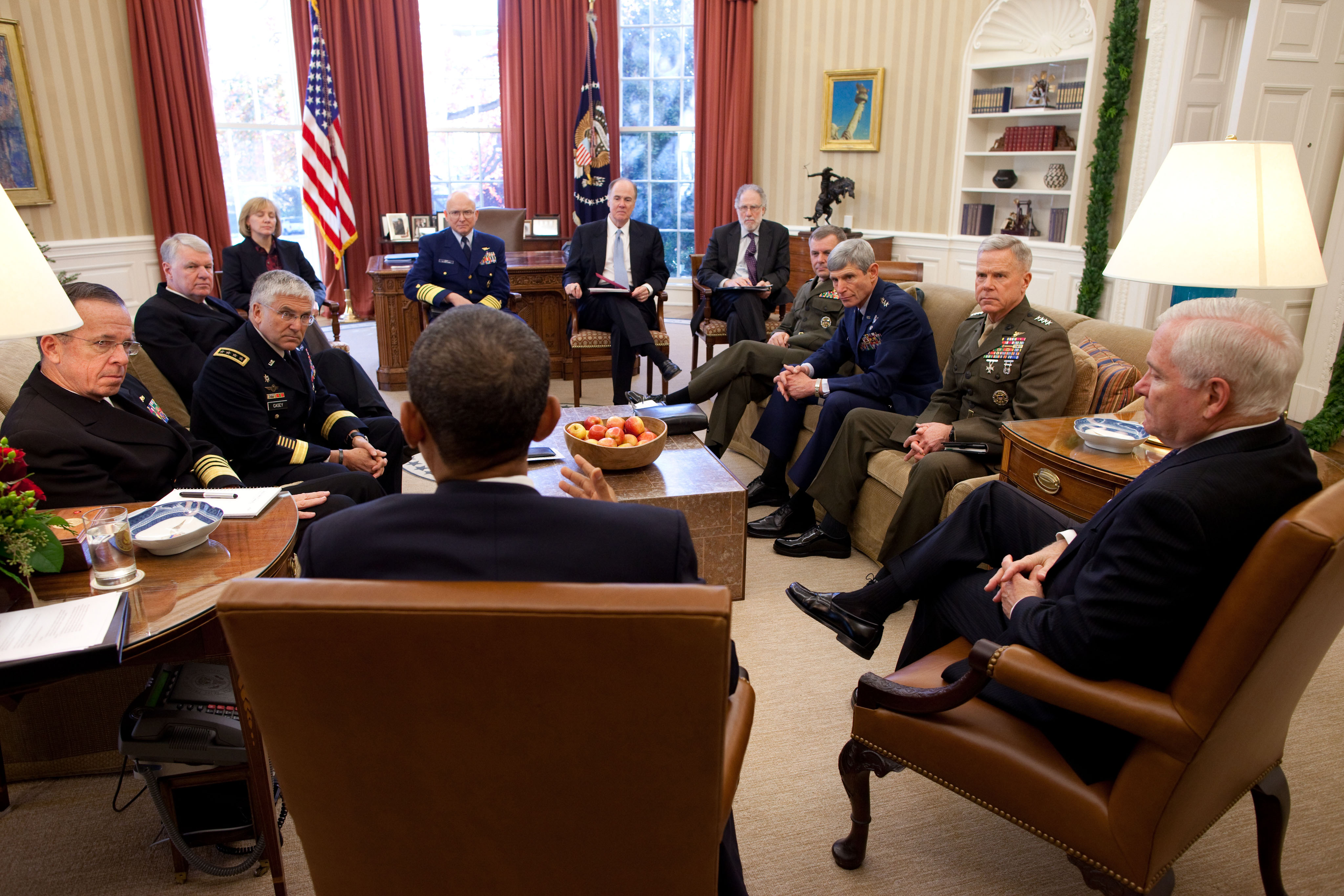 President Barack Obama holds a meeting about repealing the "Don't Ask, Don't Tell" policy with the Joint Chiefs of Staff and Secretary of Defense Robert M. Gates, right, in the Oval Office, Nov. 29, 2010. (Official White House Photo by Pete Souza) This official White House photograph is in the public domain from a copyright perspective, so while restrictions such as personality or privacy rights may apply, in general, manipulations are allowed.